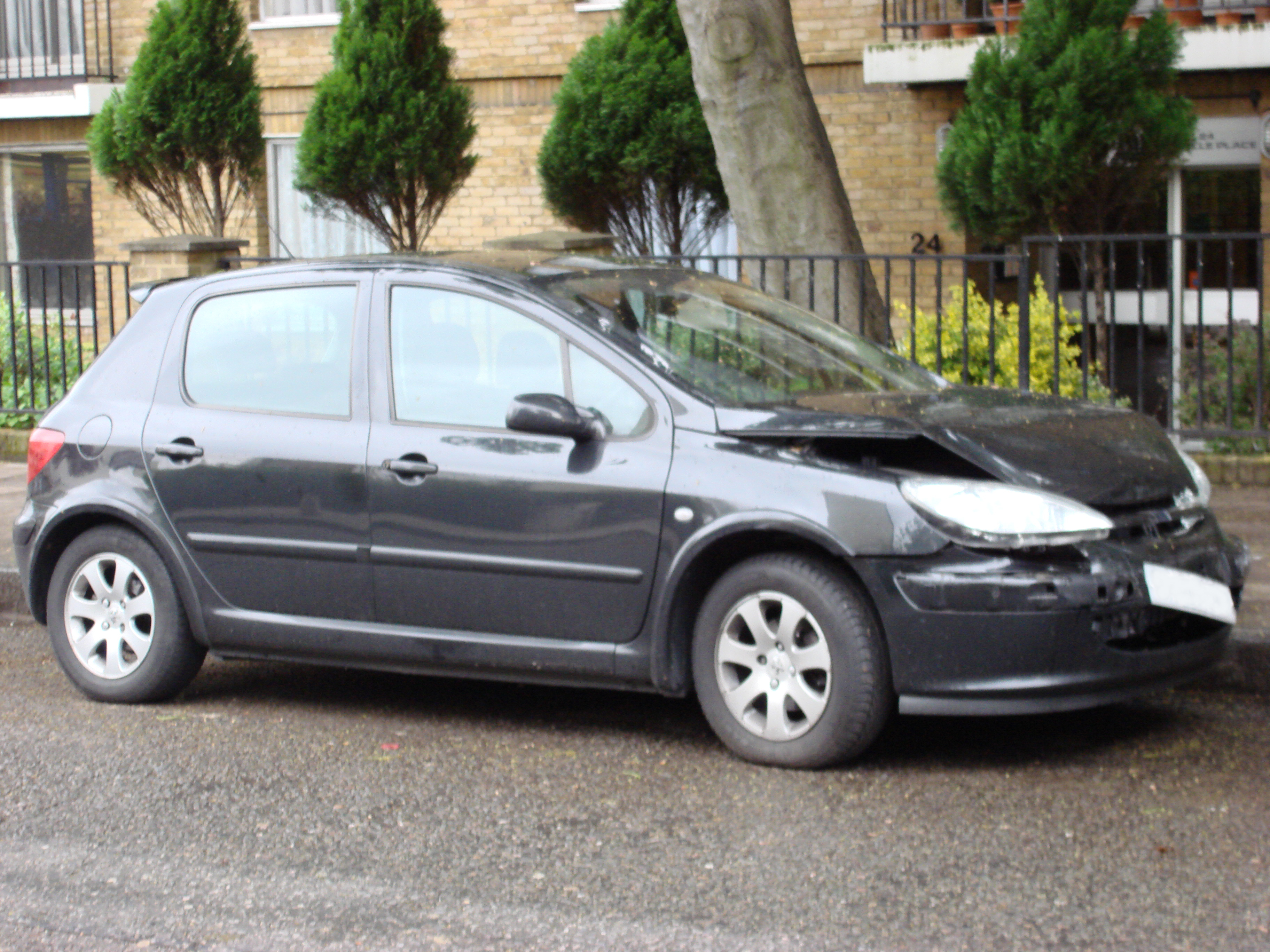 Crashed Peugeot 307 in London